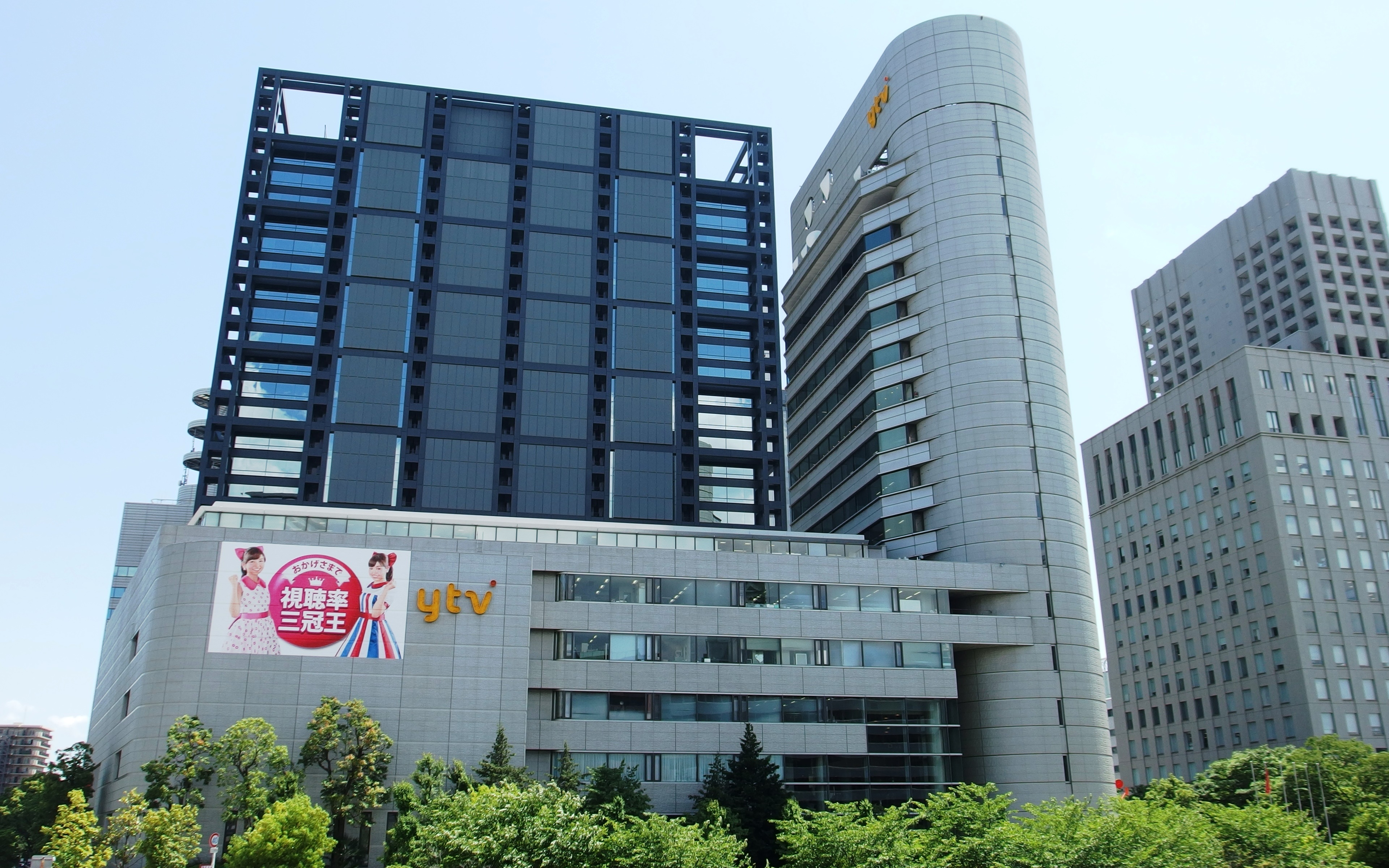 Yomiuri Telecasting Corporation in Osaka, Osaka Prefecture, Japan